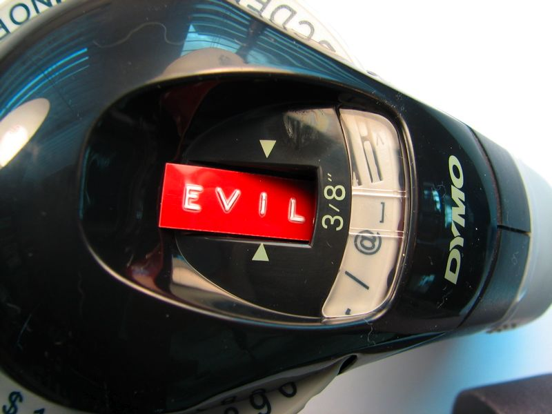 Dymo brand tape embosser in operation